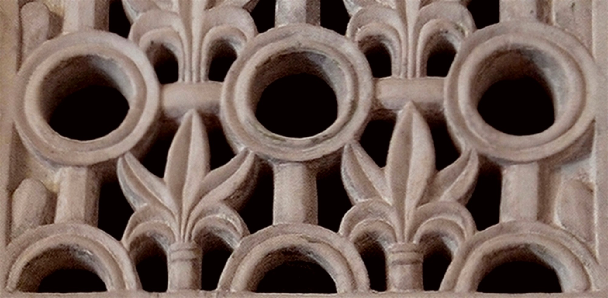 Close up of some openings of a white marble panel of the mihrab in the Great Mosque of Kairouan, in Tunisia.